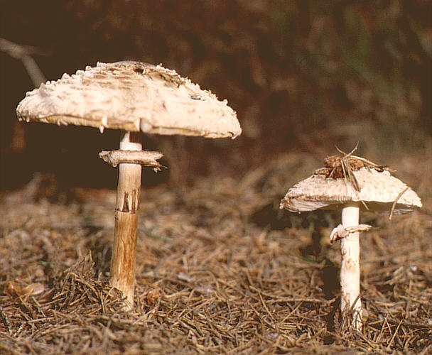 Safranschirmling (Macrolepiota rhacodes)